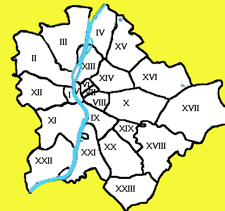 A Map of the Disticts of Budapest. Source: Hungarian WP, modified by AlphaCentauri